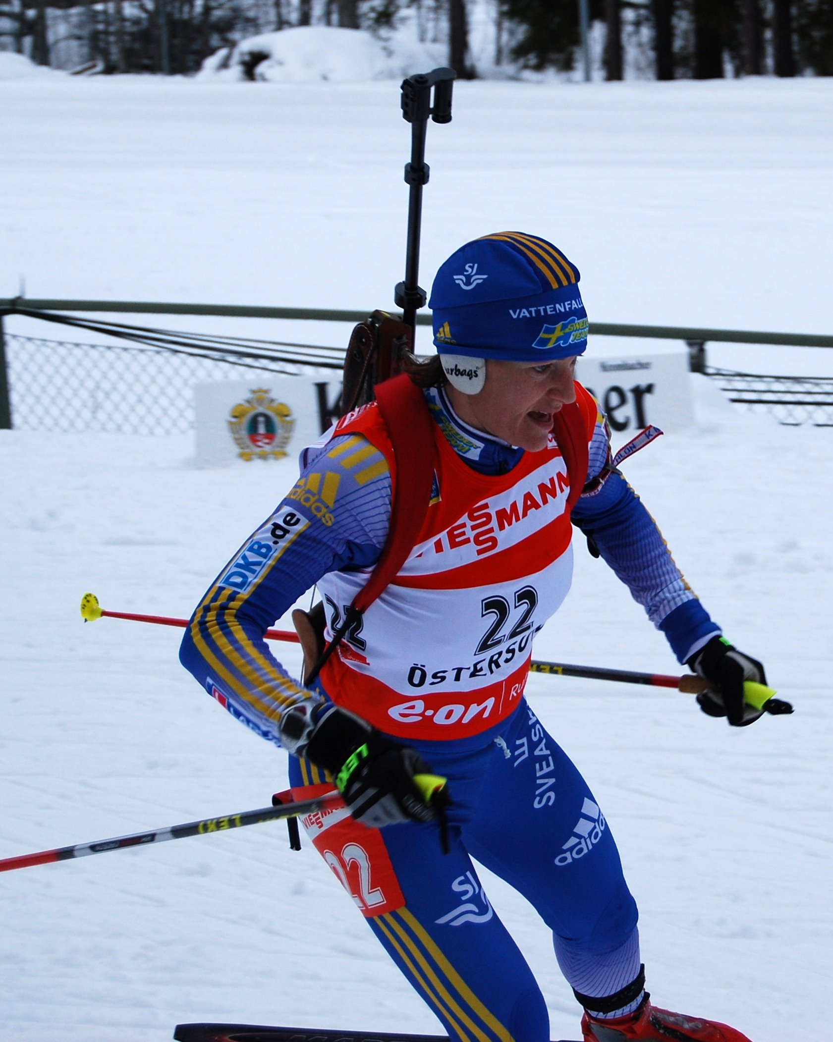 Swedish biathlete Anna Carin Olofsson during the World Championships in Östersund 2008.